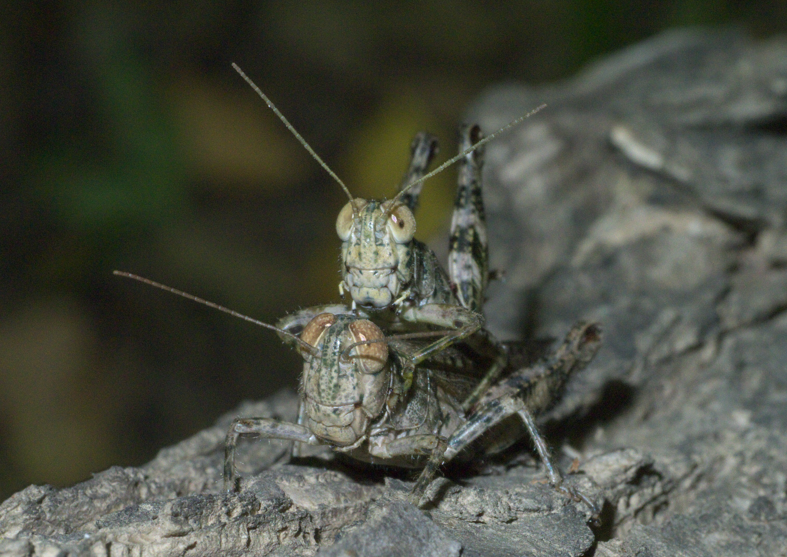 Melanoplus punctulatus, Pine Tree Spur-throat Grasshopper, ID Confidence: 98